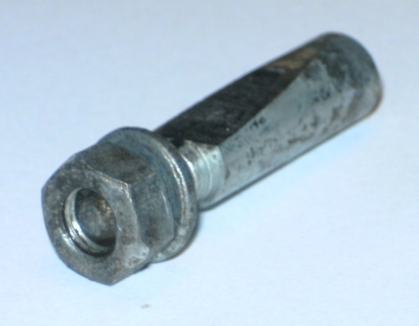 Cotter Pin (UK) usage - note flat taper on top edge.